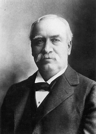 Photo of Henry Villard (1835-1900).